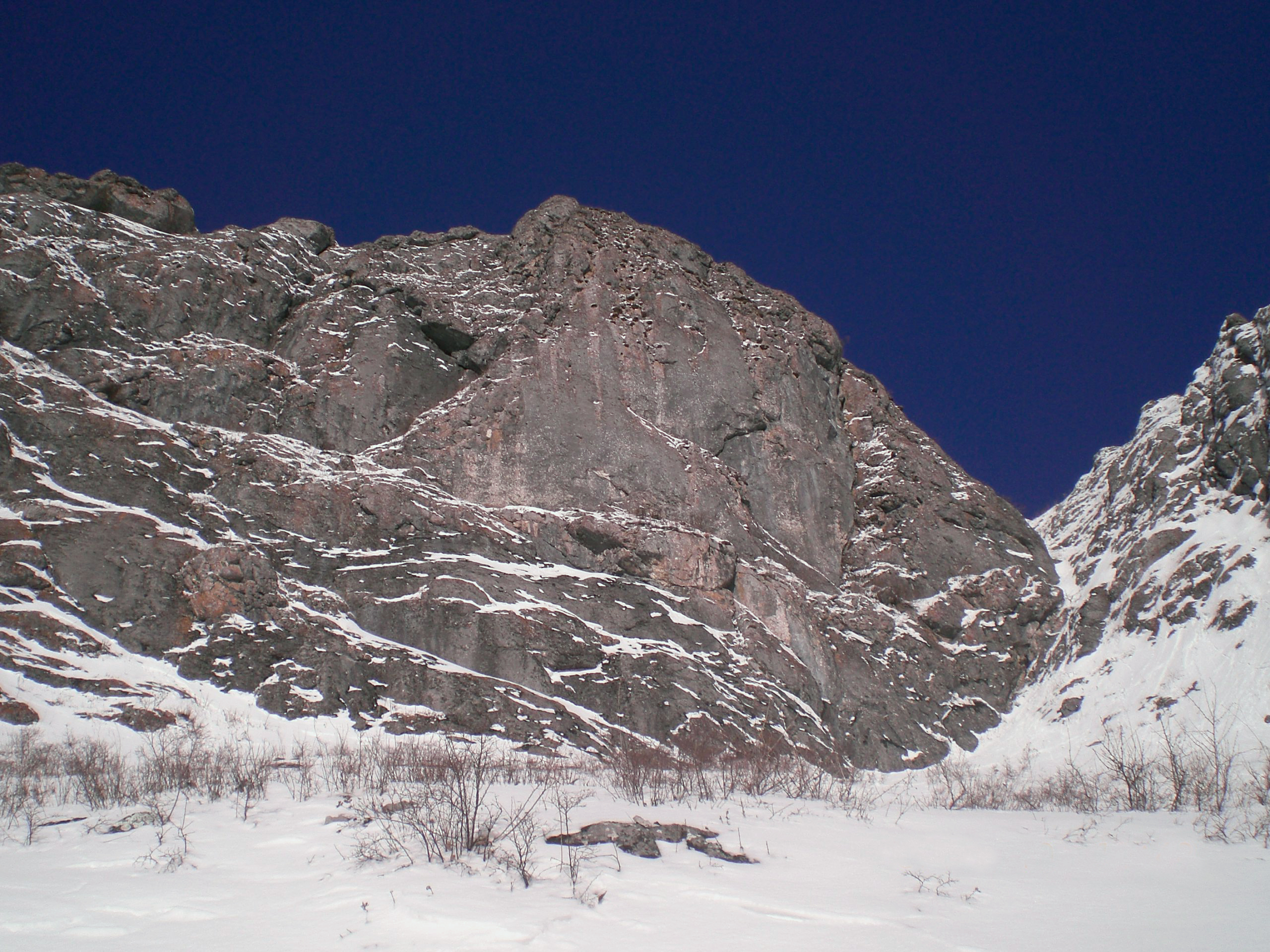 Sakharnaya mnt.